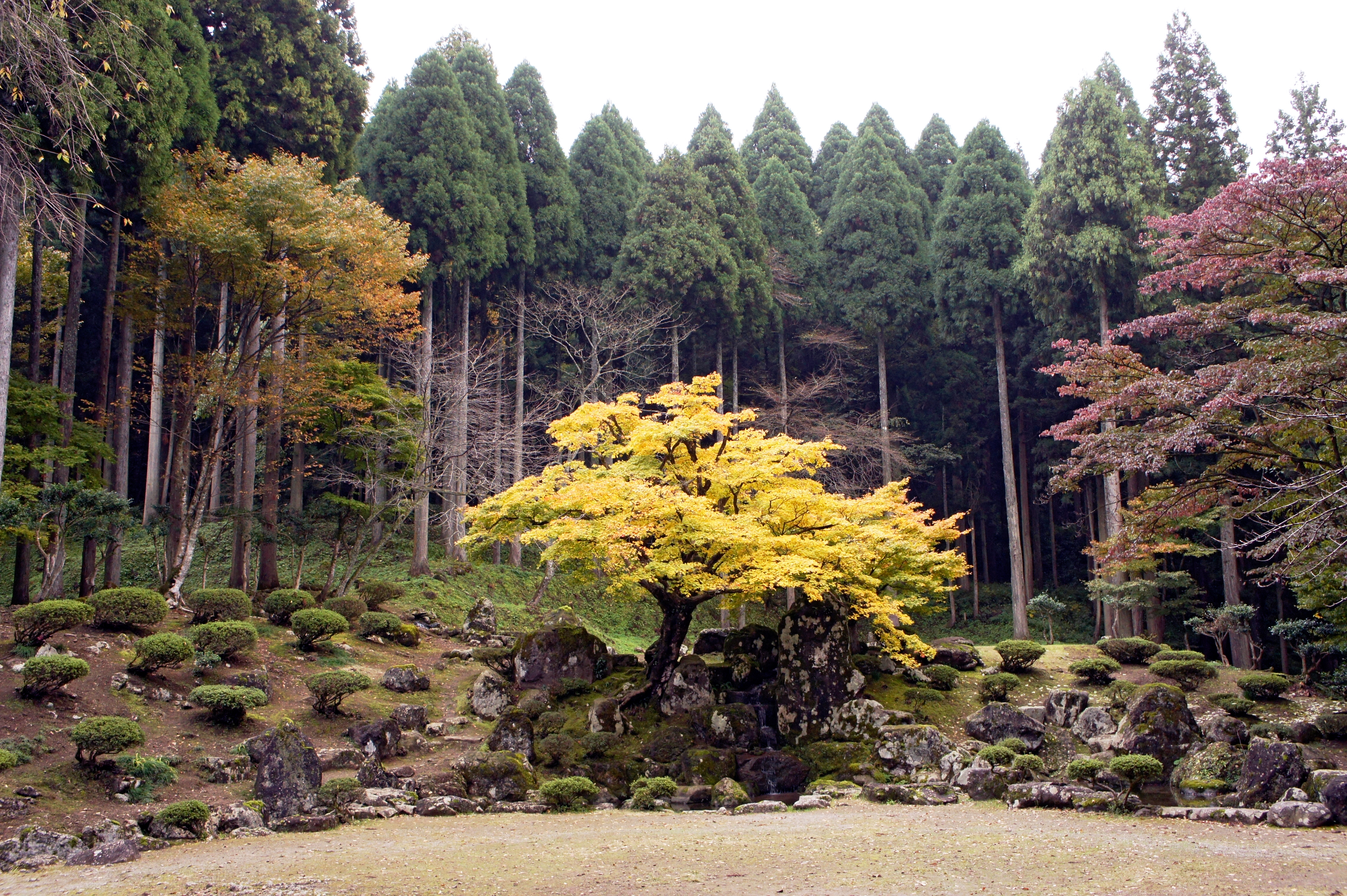 Suwa Yakata-ato Garden of Ichijōdani Asakura Family Historic Ruins is an extremely important cultural asset of Japan "Special Places of Scenic Beauty", in Fukui, Fukui prefecture, Japan.